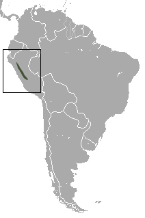 Hairy Long-nosed Armadillo (Dasypus pilosus) range